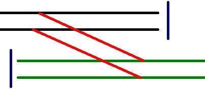 One of the variants of construction of tram-railway gate. Black, green and red colors mean tram, railway and connective tracks respectively